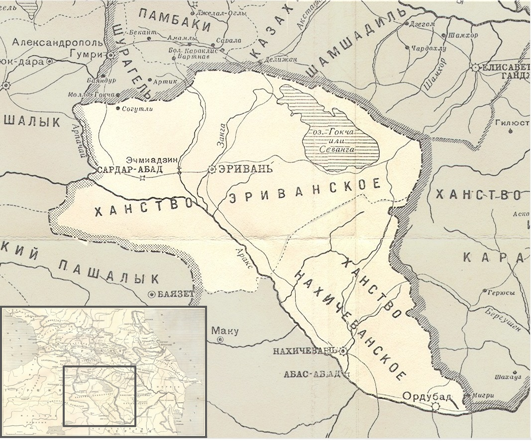 Khanates of Erivan and Nakhchivan in the map of Caucasus in 1809-1817 years (Карта военных действий в Закавказском крае с 1809 по 1817 год)